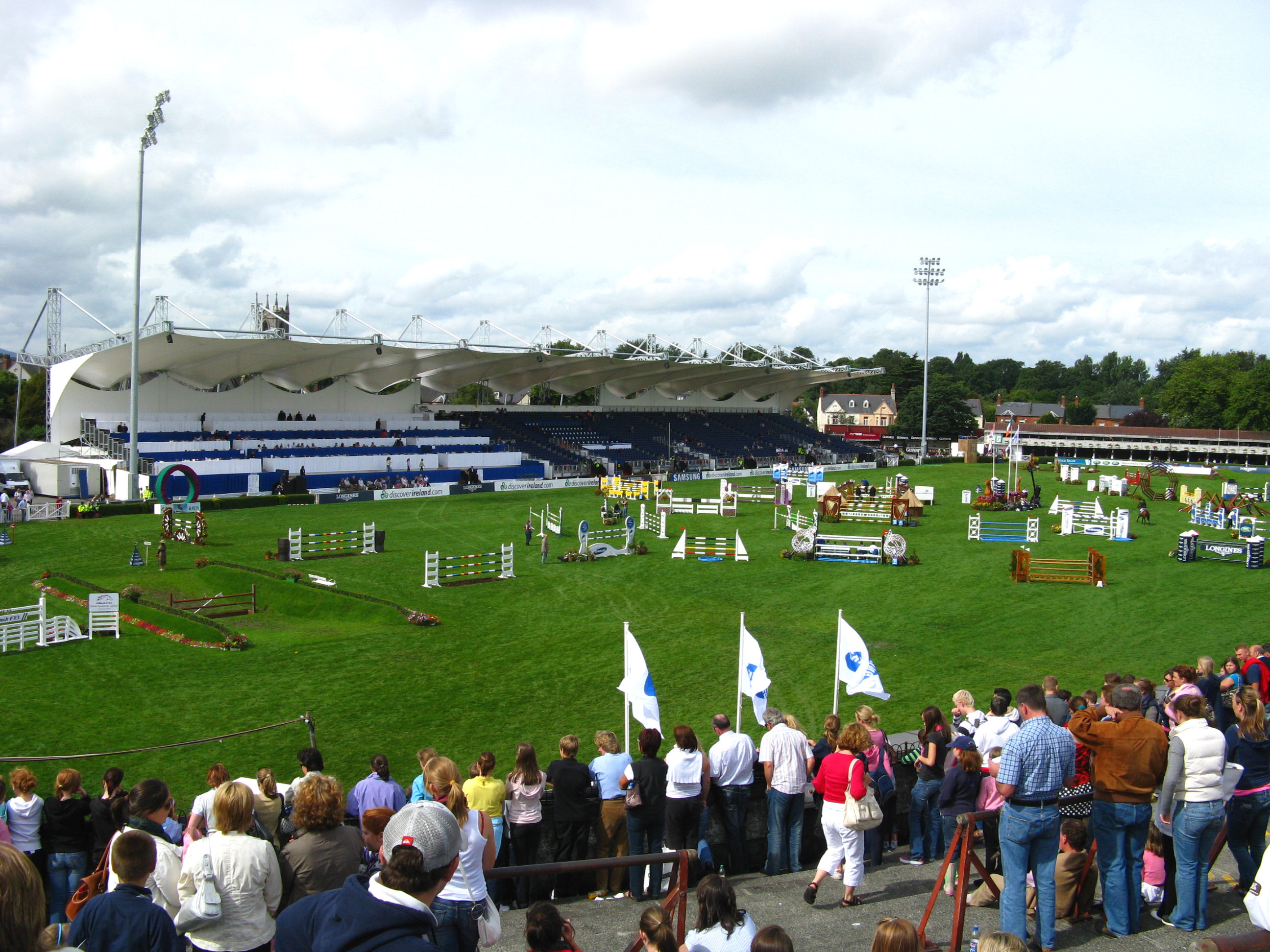 RDS Dublin Horse Show main arena - adjusted with Paint Shop Pro 9.0